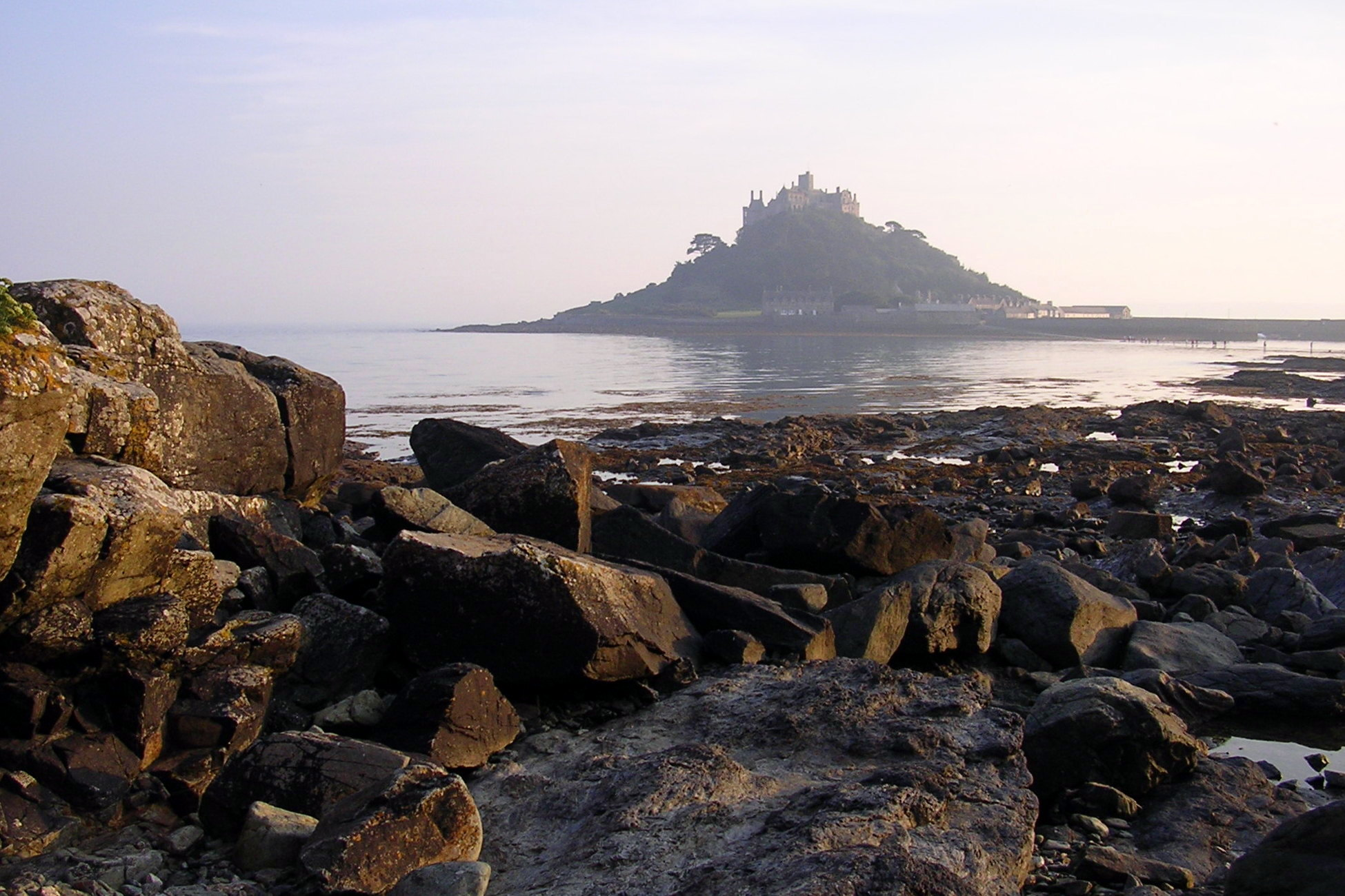 From the shore at Marazion. Cornwall, England